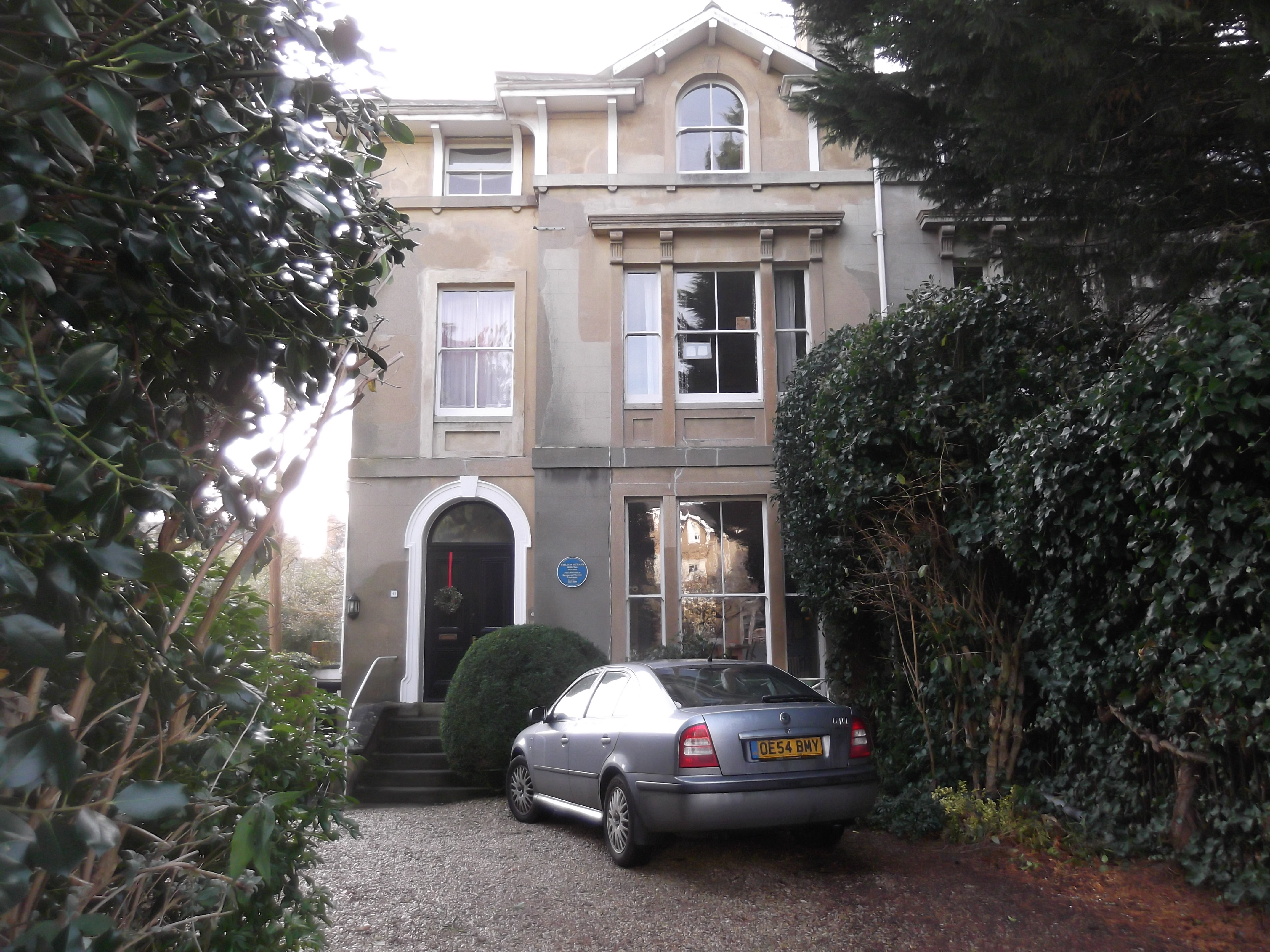 House once inhabited by William Morfill in Park Town, North Oxford, England.